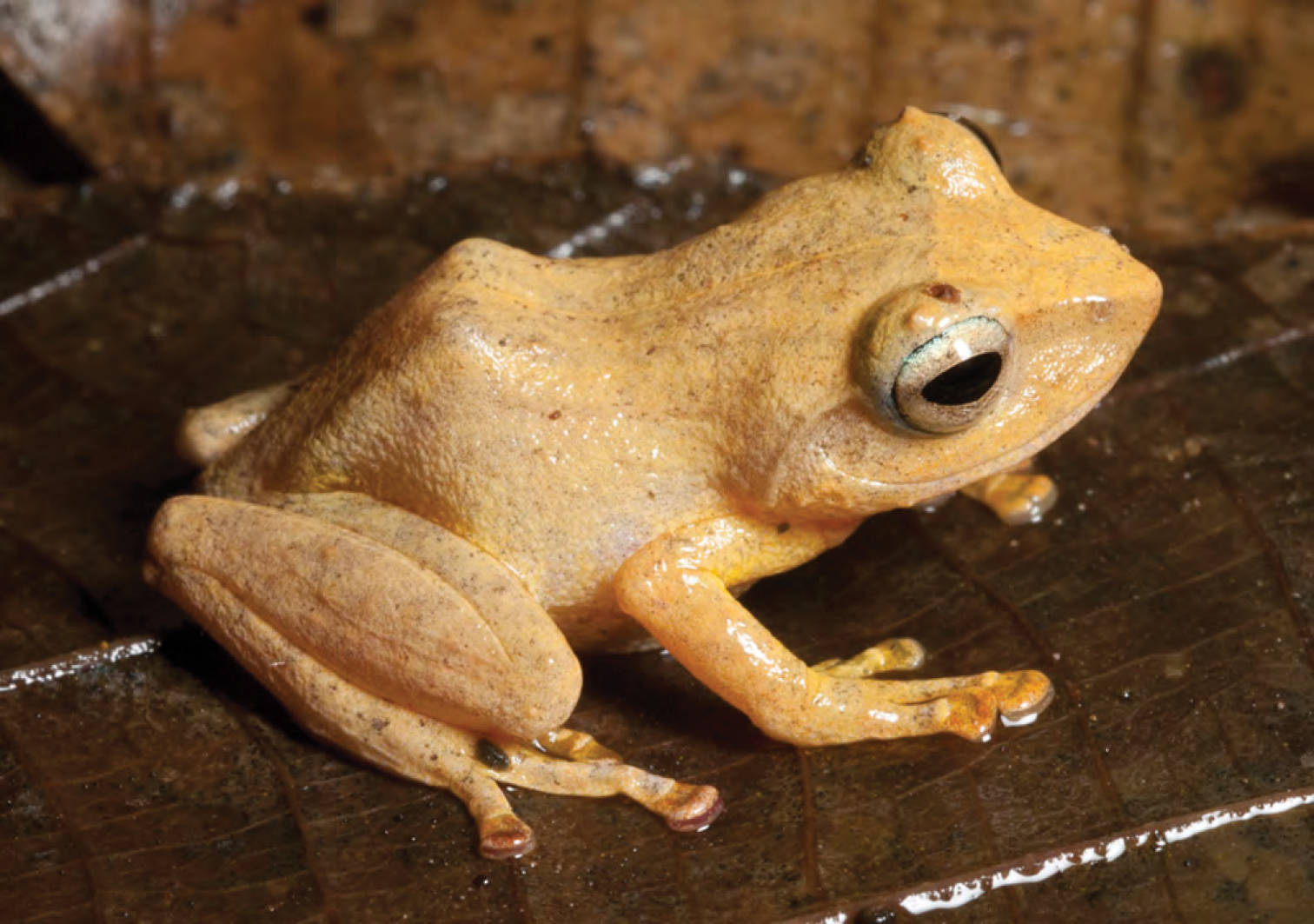 Female Platymantis polillensis (KU 330235) from mid elevation of Mt. Cagua. Photo: RMB.